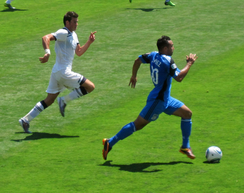 Gareth Bale of Tottenham Hotspur FC defends Arturo Alvarez of San Jose Earthquakes in a July 2010 friendly in San Jose, California.